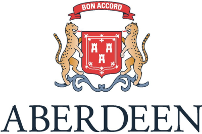 Logo used by the city of Aberdeen, showing the historical coat of arms